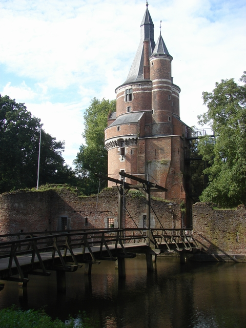 Castle Duustede